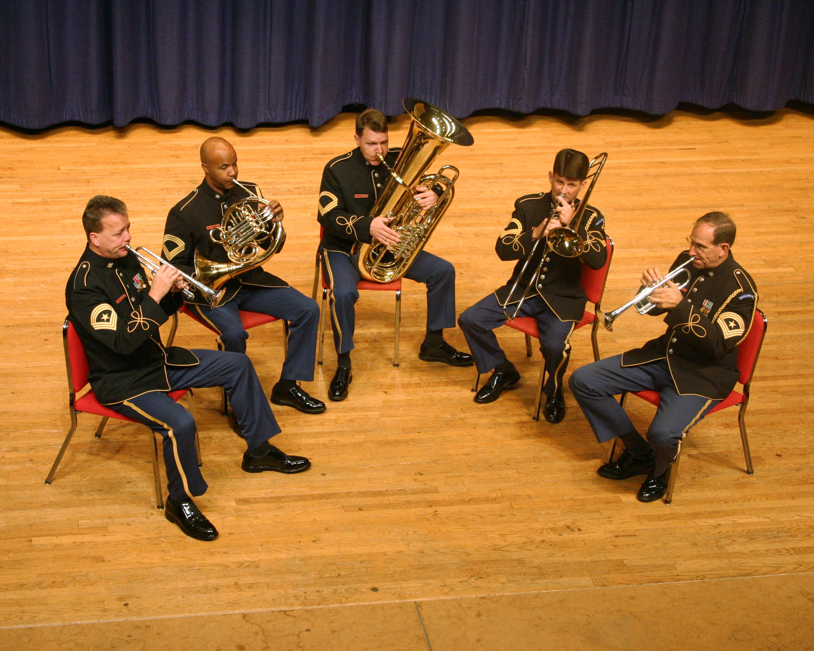 The U.S. Army Brass Quintet Official Photo